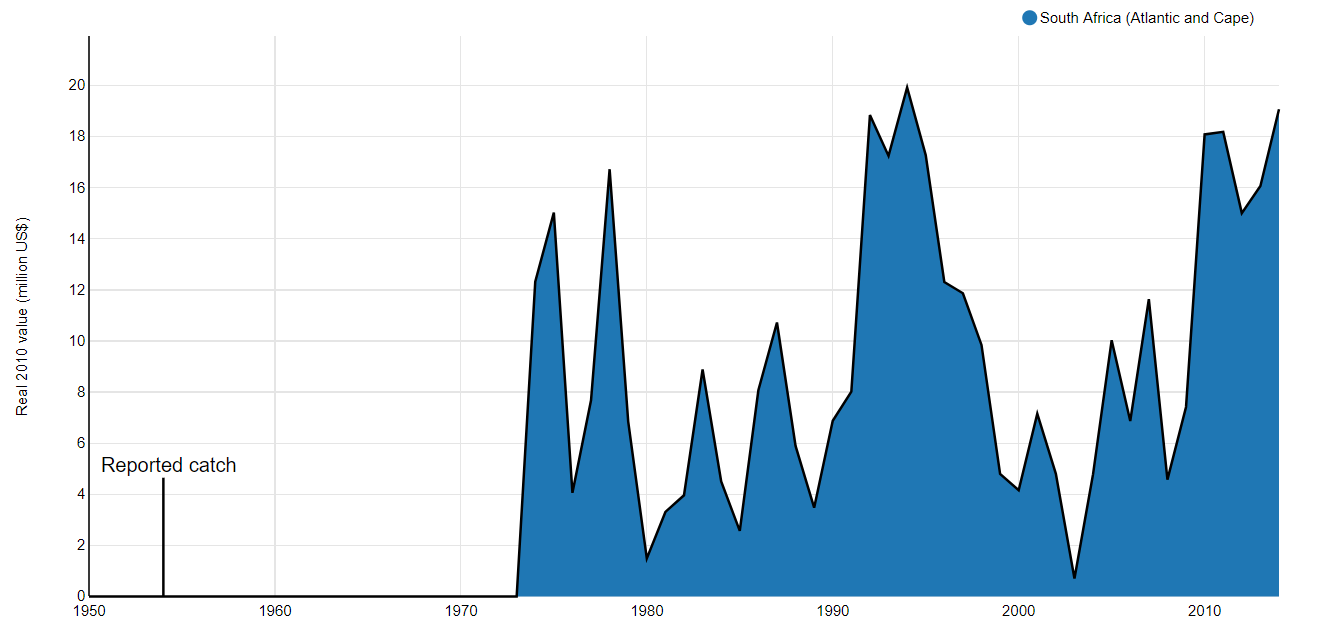 Verðmæti í dollurum